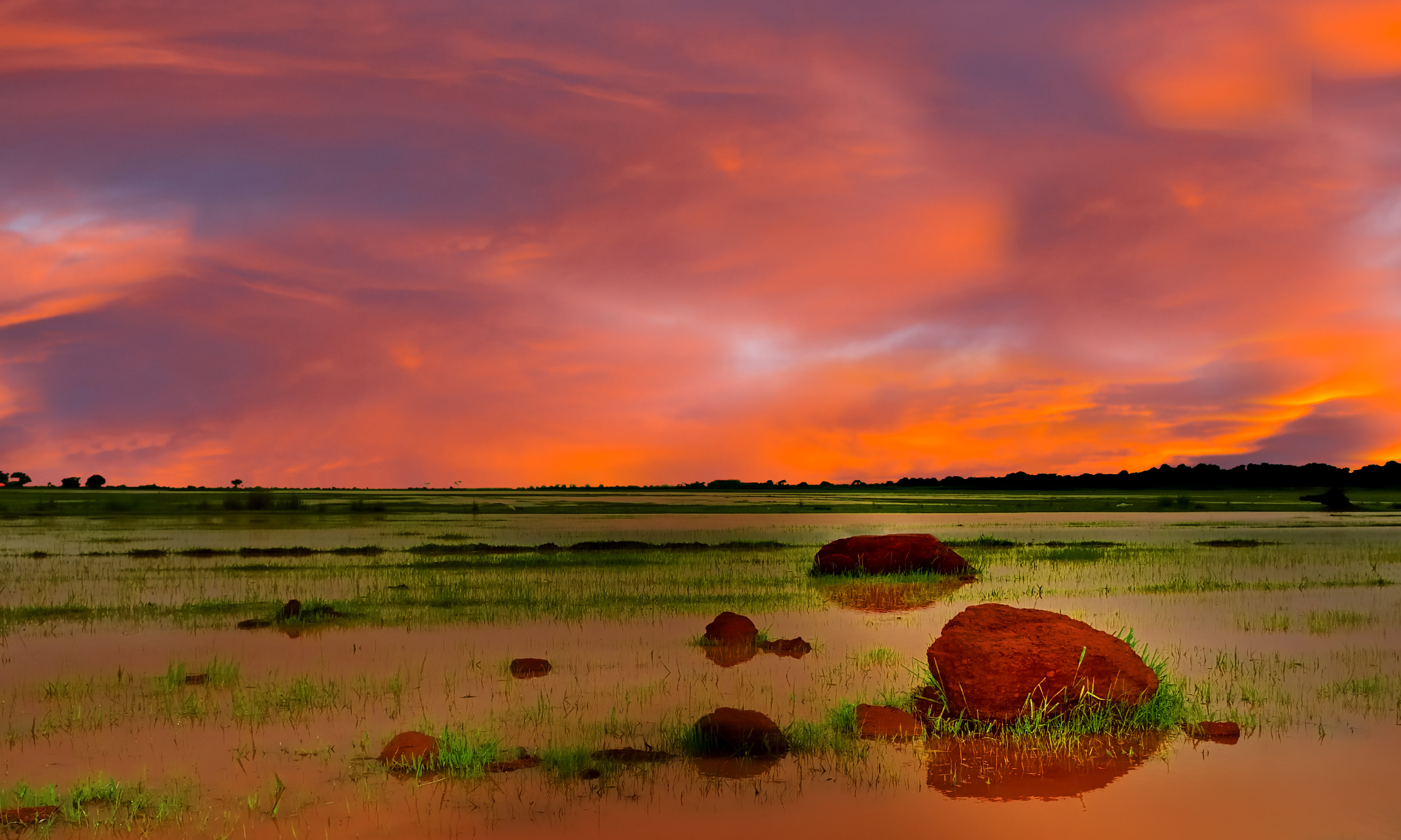 Under a African Sky. Jur River, the upper course of the river Bahr al-Ghazal in South Sudan.